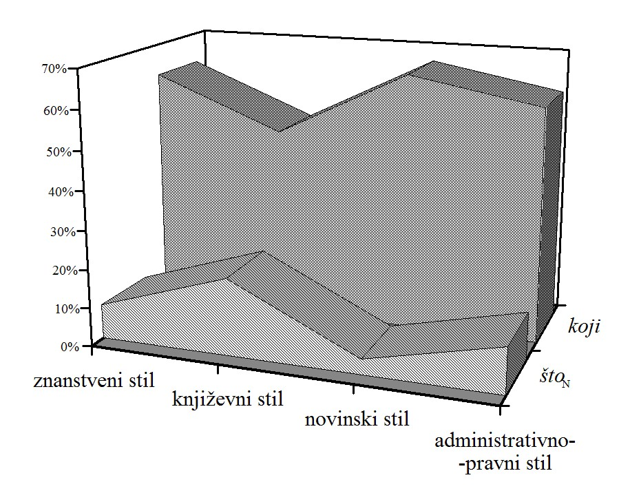 Frequency of the main relativizers from Snježana Kordićʼs book Relativna rečenica, Zagreb 1995, diagram on p. 164 or its German translation: Der Relativsatz im Serbokroatischen, Munich 1999, diagram on p. 149